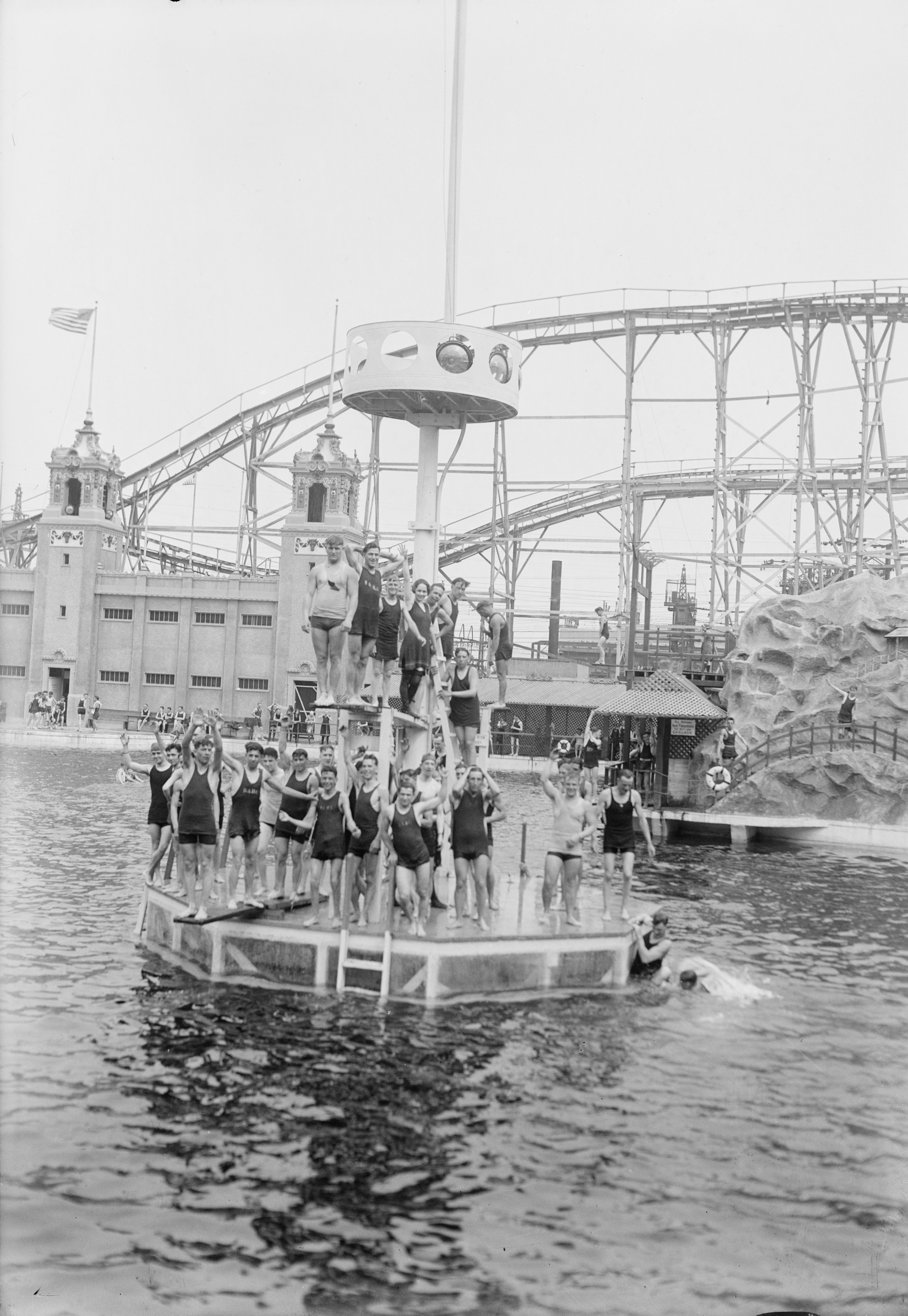 Starlight Park in the Bronx, New York. Sign near the rock reads "All persons are FORBIDDEN to sit on the Cascade."